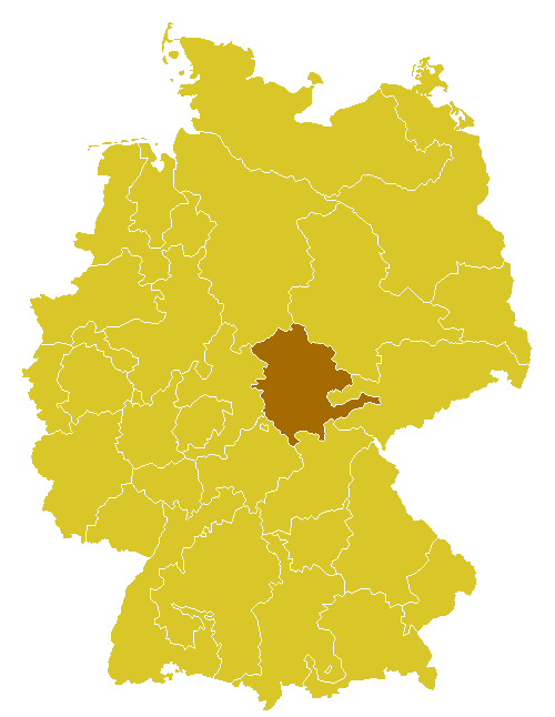 map of Roman catholic dioecese Erfurt